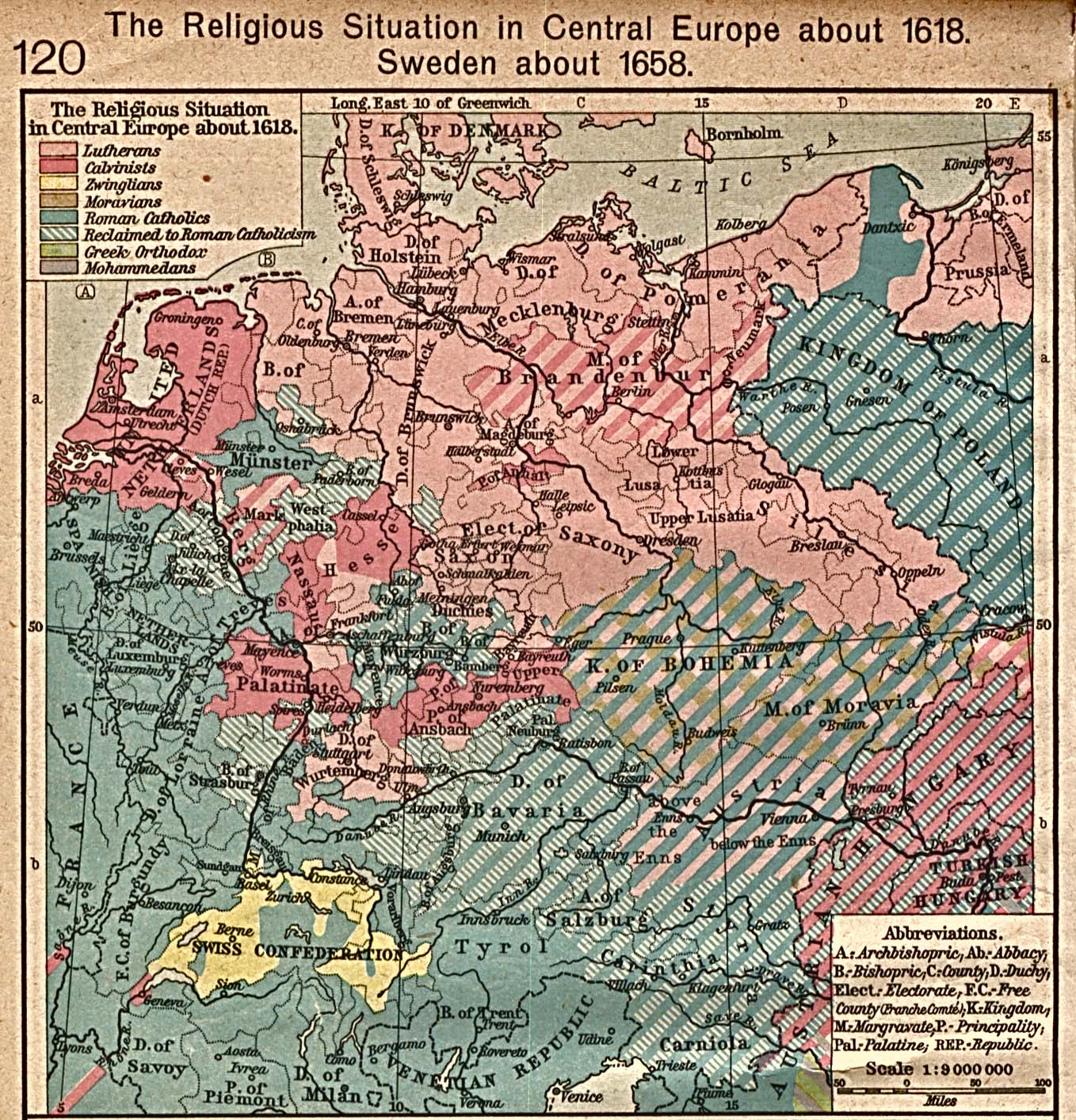 The religious situation in central Europe about 1618